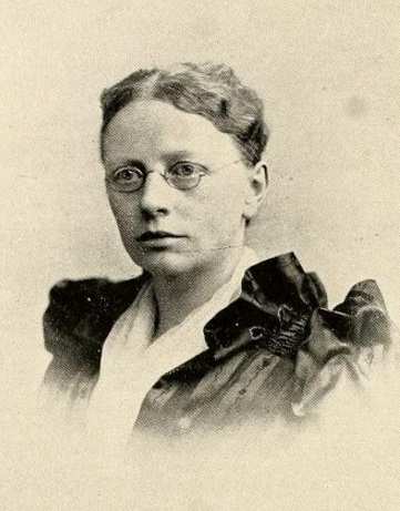 Photographic portrait of American novelist and minister Celia Parker Woolley (1848-1918). From American Women: Fifteen Hundred Biographies with Over 1,400 Portraits, Frances E. Willard and Mary A. Livermore, editors. Mast, Crowell & Kirkpatrick, 1897 (revised edition from 1893), vol. 2, p. 800. Cropped version.